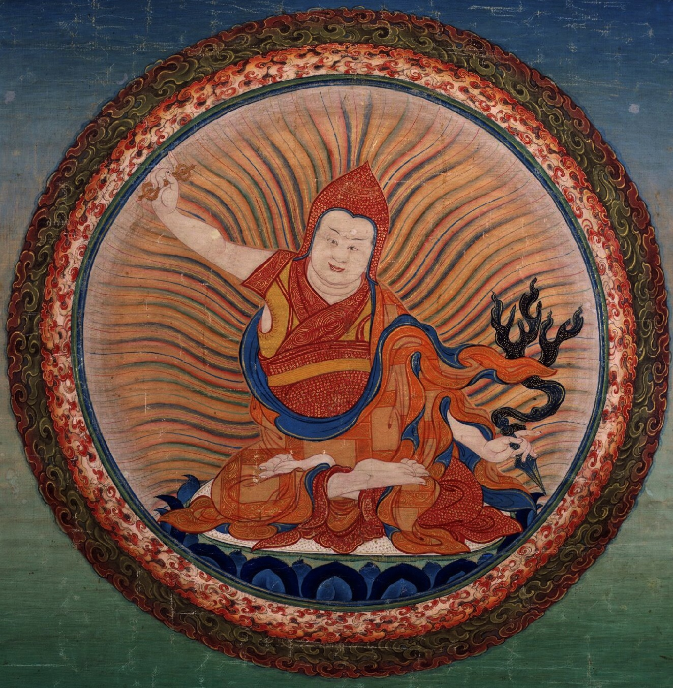 Jatson Nyingpo, b.1585 - d.1656, Tibetan Terton